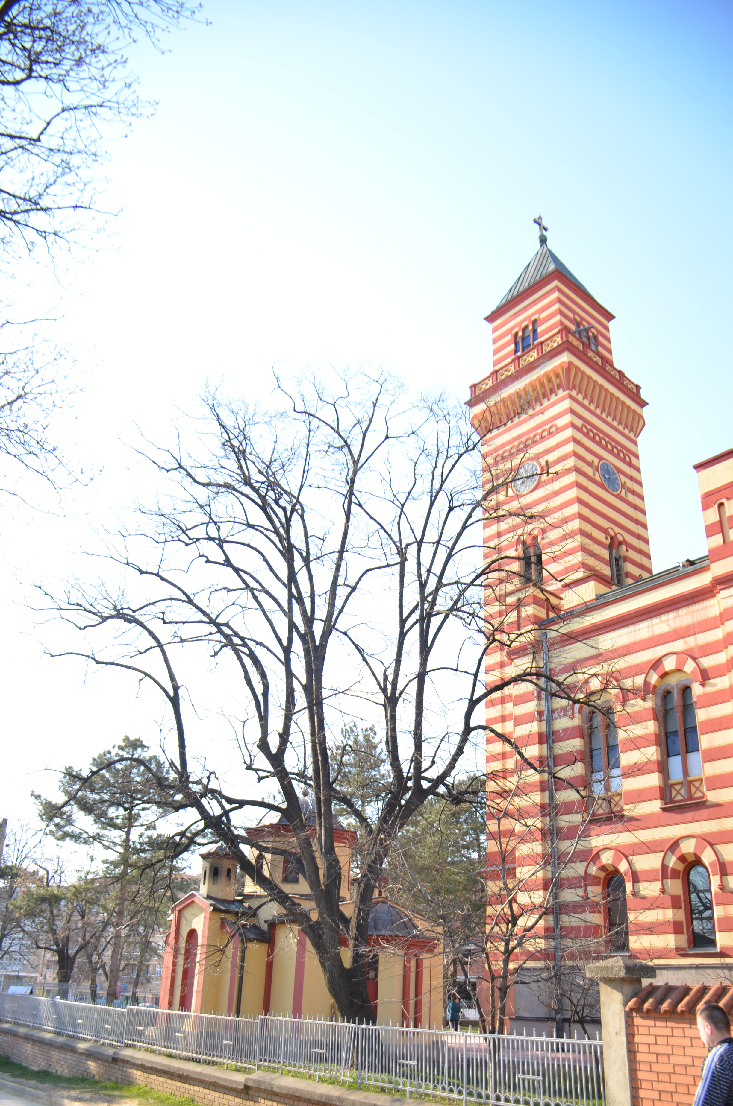 Zapis - Sacred Tree, Linden in Paraćin, municipality Paraćin, Serbia